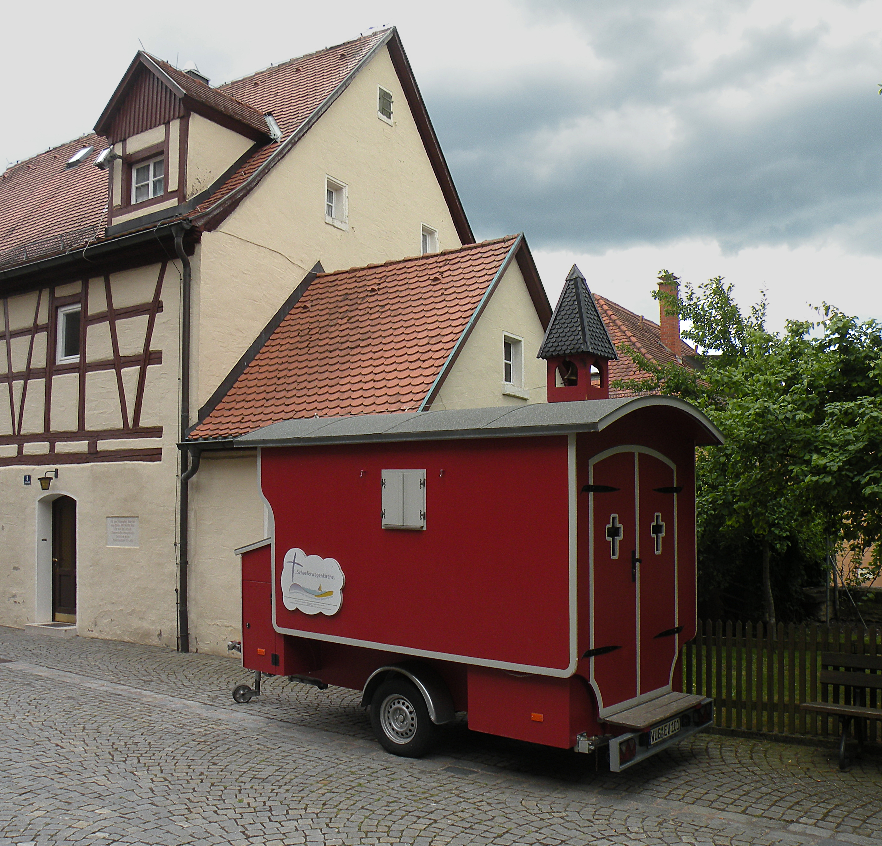 Contemporary_itinerant_church